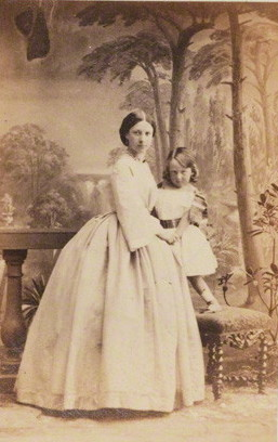 Lady Emily Marie Kingscote (née Curzon); Nigel Richard Fitzhardinge Kingscote by Camille Silvy albumen print, 1860 3 3/8 in. x 2 1/8 in. (85 mm x 55 mm) image size Purchased, 1904 Photographs Collection NPG Ax50545